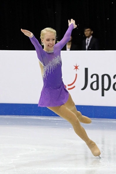 Bradie Tennell at the 2017 World Junior Figure Skating Championships.